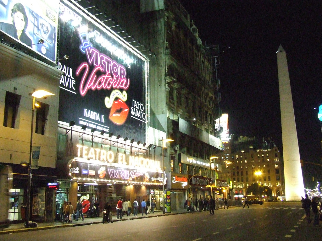 The El Nacional Theater Sancor Seguros in Corrientes Avenue, Buenos Aires, Argentina.